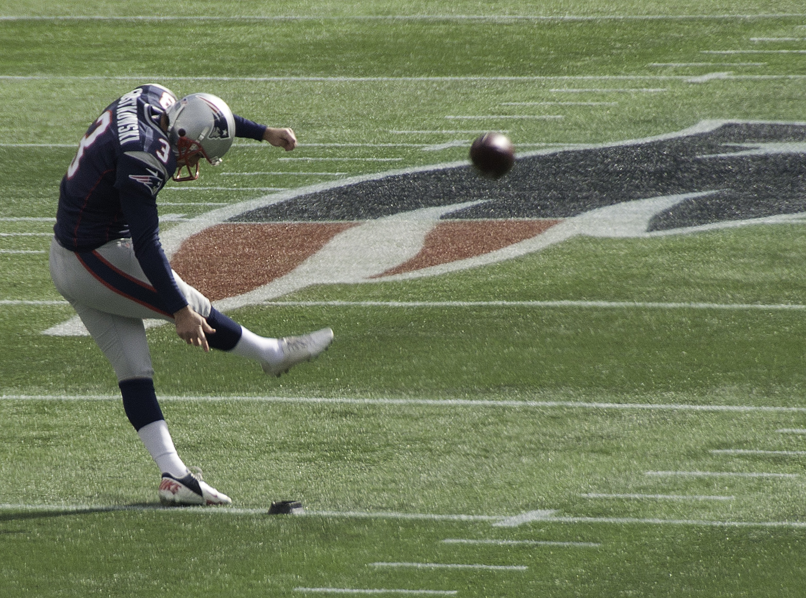 Patriots kicker Stephen Gostkowski kicks off.